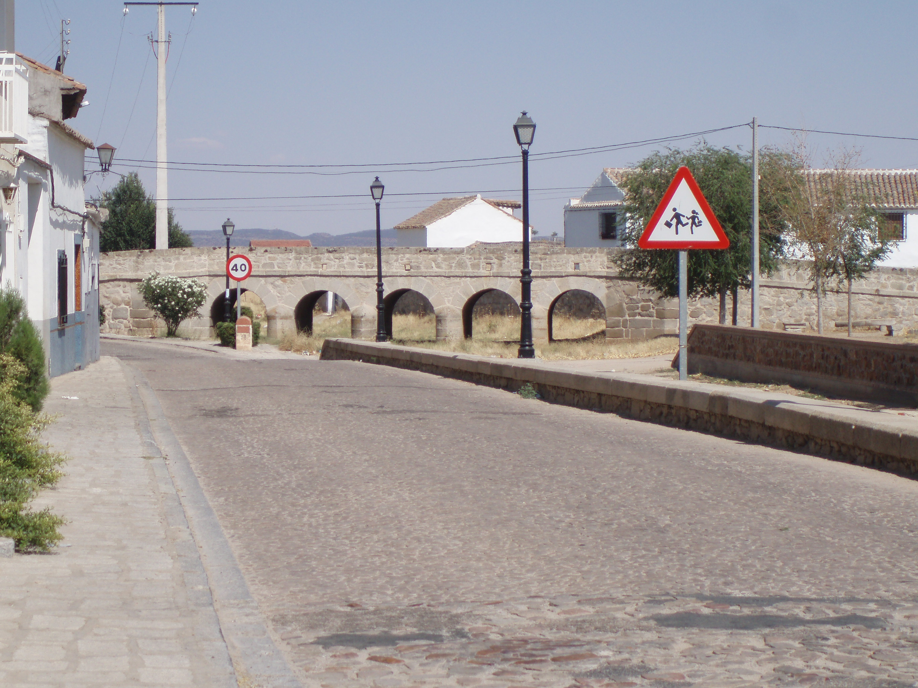 Bridge of Orgaz, in province of Toledo. (Spain).